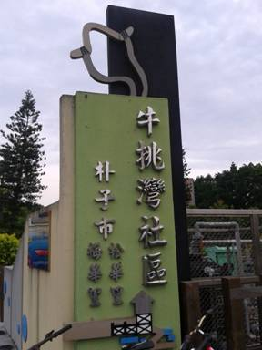 Niutiaowan